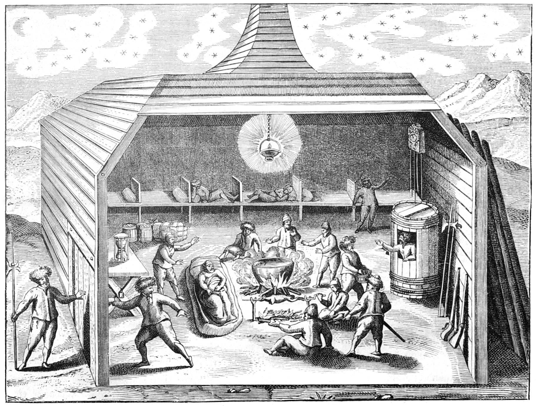 caption: "Abbildung des Hauses, in welchem der Seefahrer Barents 1596-97 auf Nowaja Semlja überwinterte. Nach einer Zeichnung des Mitreisenden Gerrit de Beer."